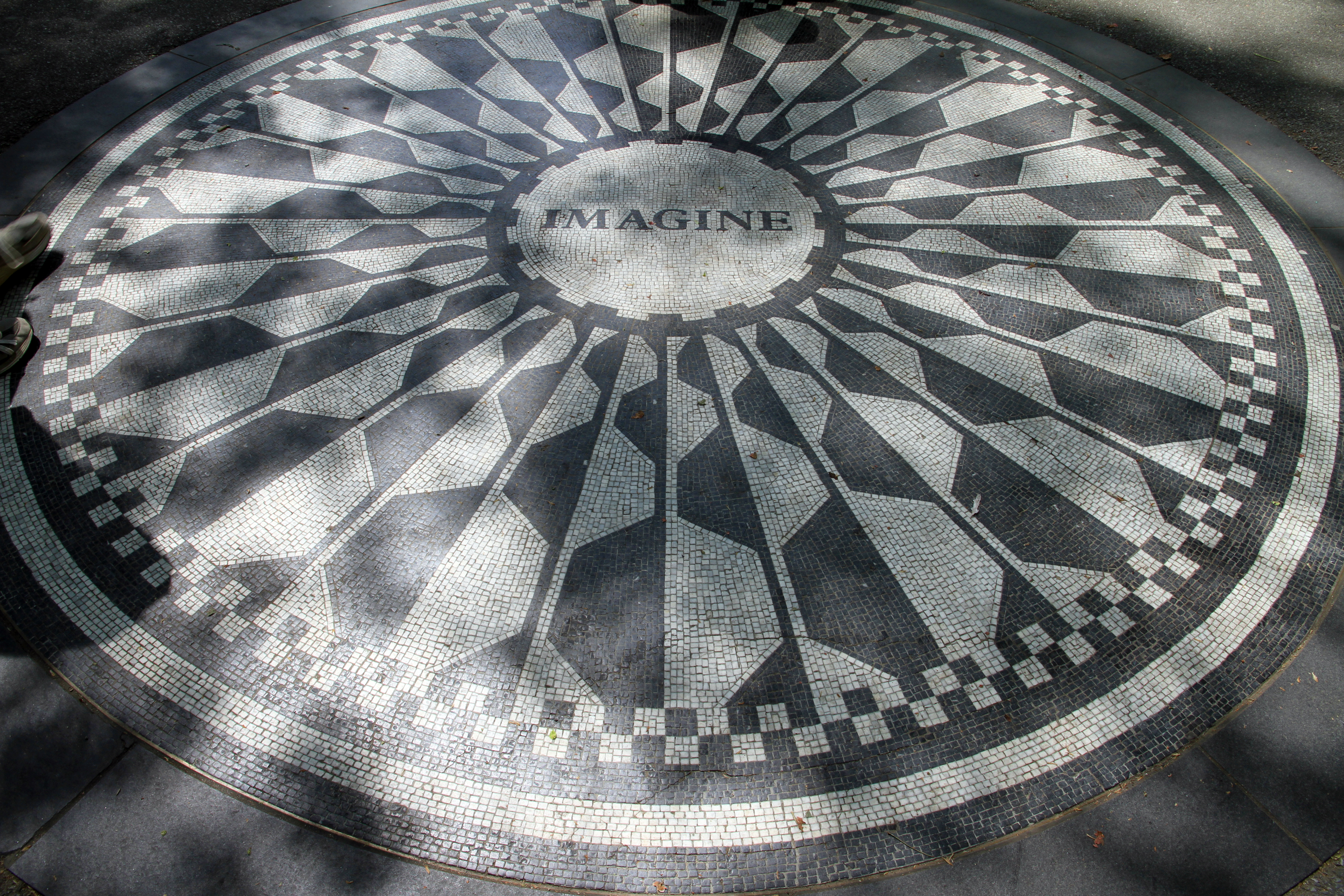 Strawberry Fields